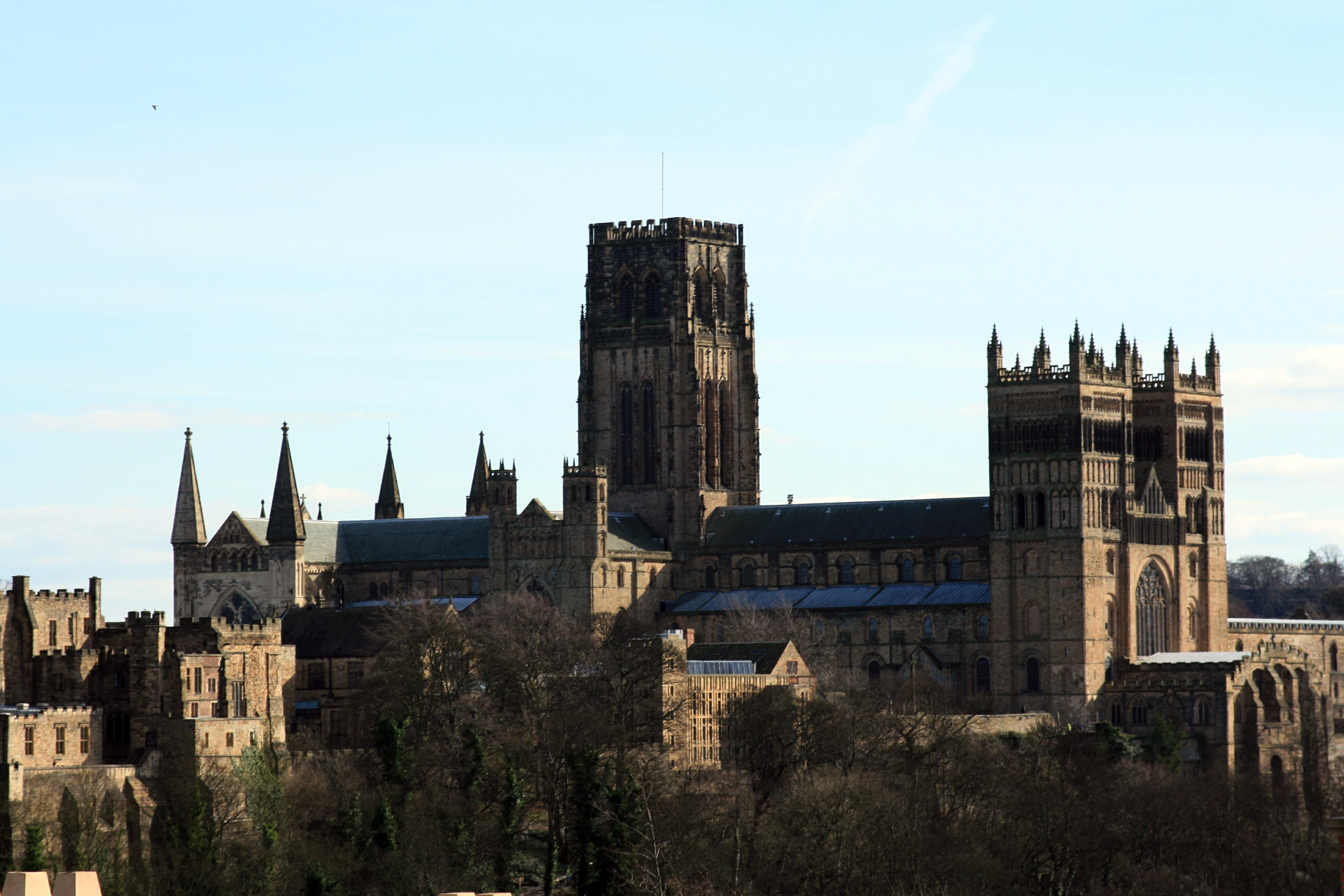 Photos of Durham Castle and Cathedral